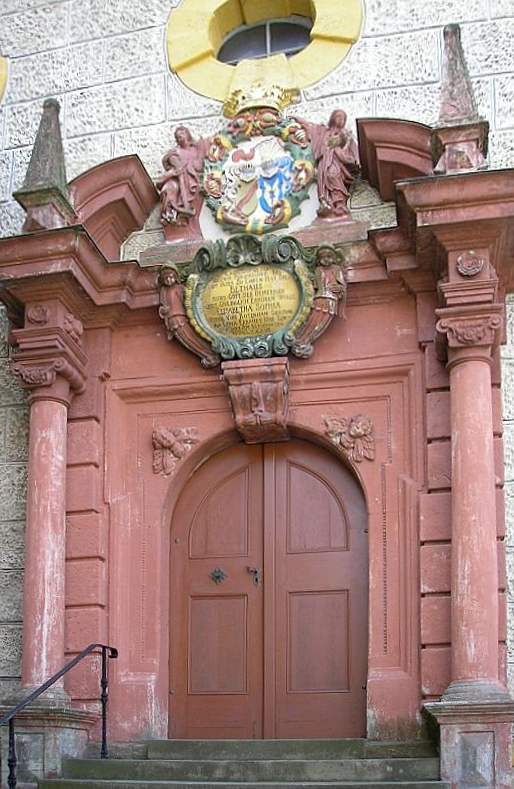 Eyrichshof Castle near Ebern, Lower Franconia, Germany. Entrance to the chapel.